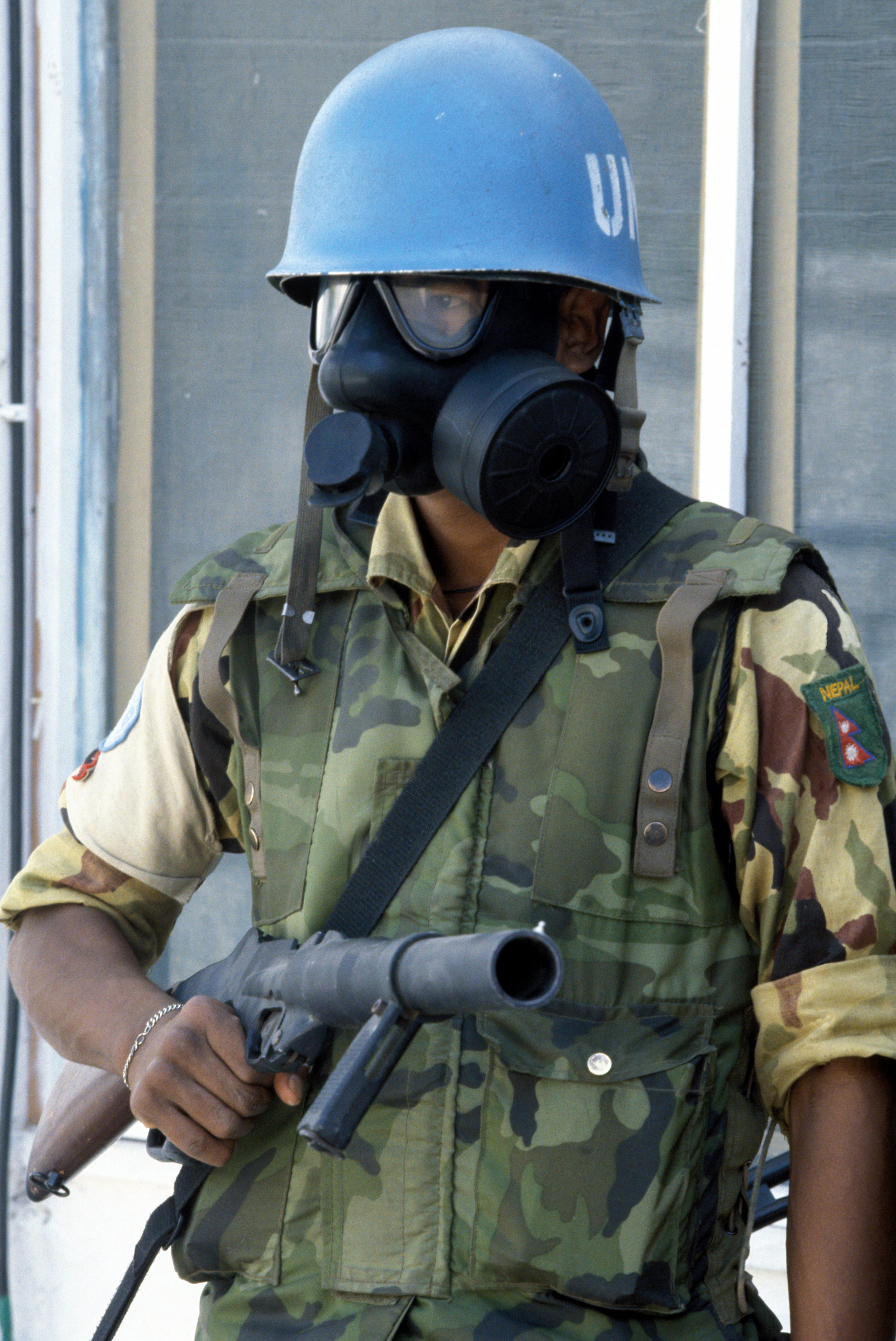 A protective mask and grenade launcher are part of the uniform of this Nepalese soldier. He is assigned to the Quick Reactionary Force (QRF) which provides foot patrols and guards convoys of United Nations staff members going to their homes.